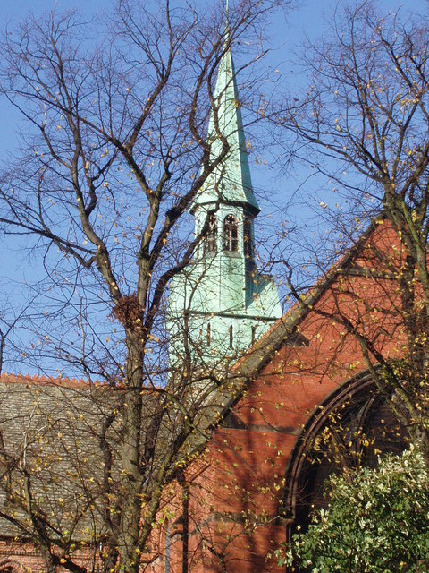 Spire of St Michael's parish church, Coppenhall, Crewe, Cheshire